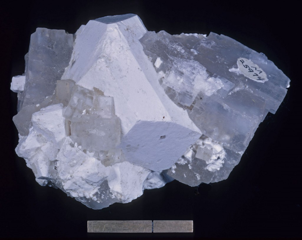 Picromerite, Halite Locality: Kalusa salt deposit (Kalusz), Ivano-Frankivs'k Oblast' (Ivanovo-Frankovsk Oblast'), Ukraine Picromerite and Halite. Specimen was labeled Carpathian Mountains, Russia. Specimen is from the collection of the Royal Ontario Museum #M25974 (1971), Toronto, Ontario, Canada. The white "picromerite" is probably a Leonite pseudomorph after picromerite. Scale at bottom of image is an inch with a rule at one cm.